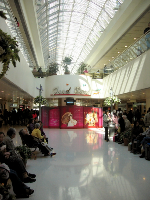 New Town Plaza Food Parc